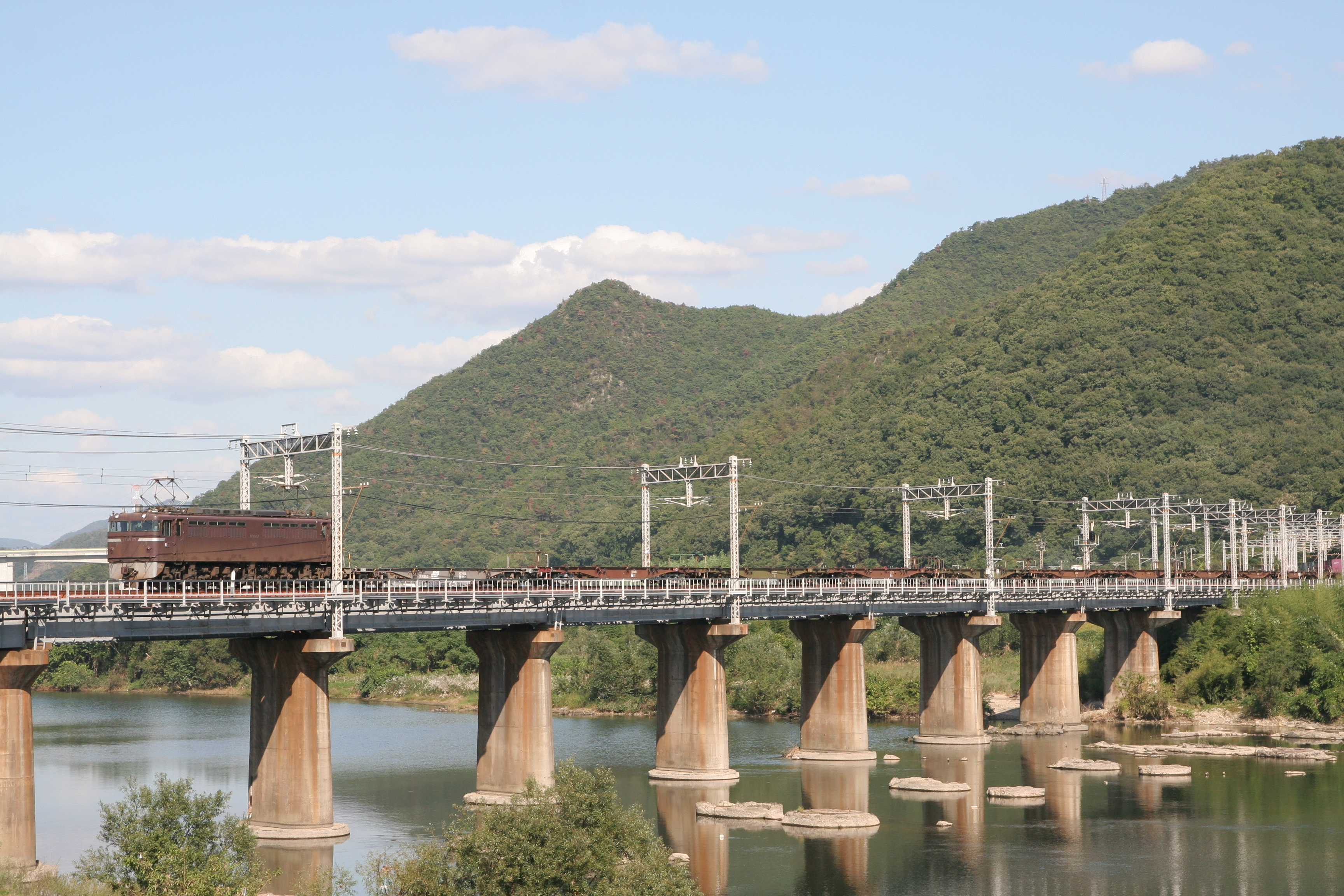 JR Freight EF65 type electric locomotive